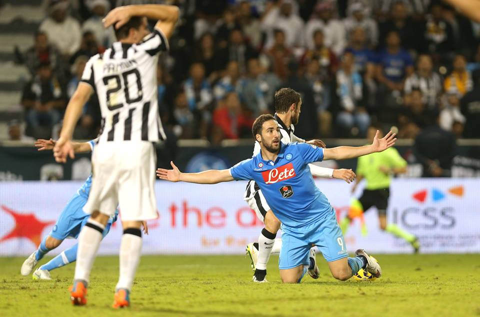 Save the Dream was proud to partner with Aspire Academy and the Qatar Football Association to spread the message of pure sport at the Italian Supercup finals between Juventus and SSC Napoli, held in Doha on December 22nd, 2014. Azzurri's Gonzalo Higuaín.